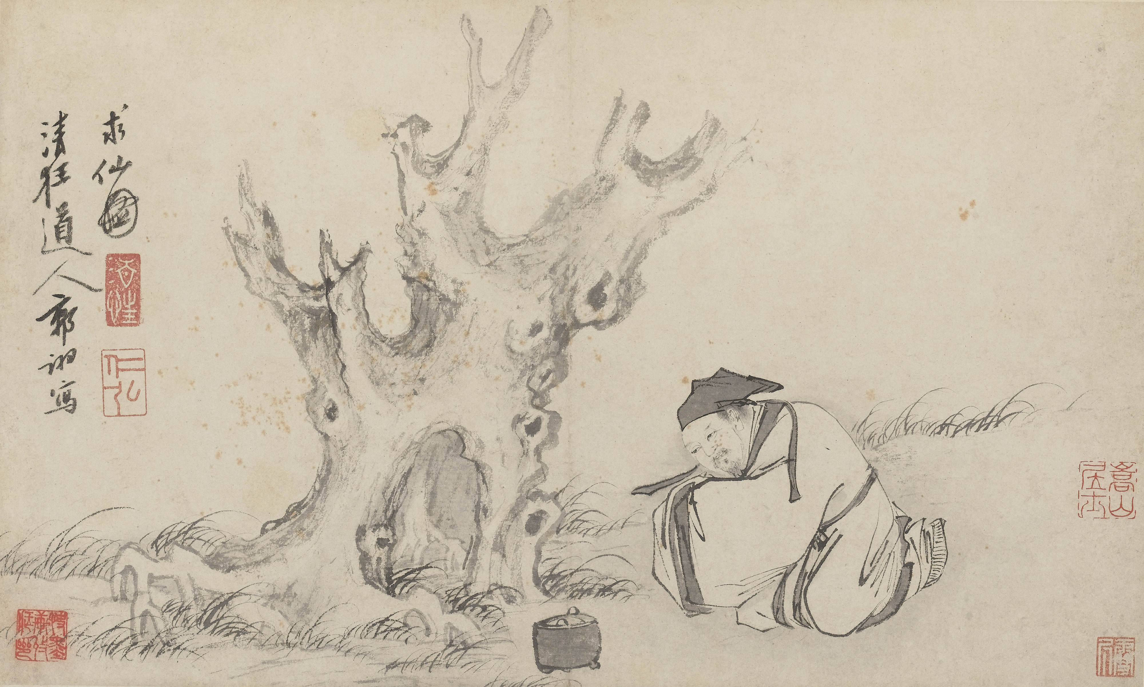 This painting depicts the immortal Qiu Chuji. He was a Daoist master of the early 13th century. He was also the founder of the Daoist sect Quanzhen.